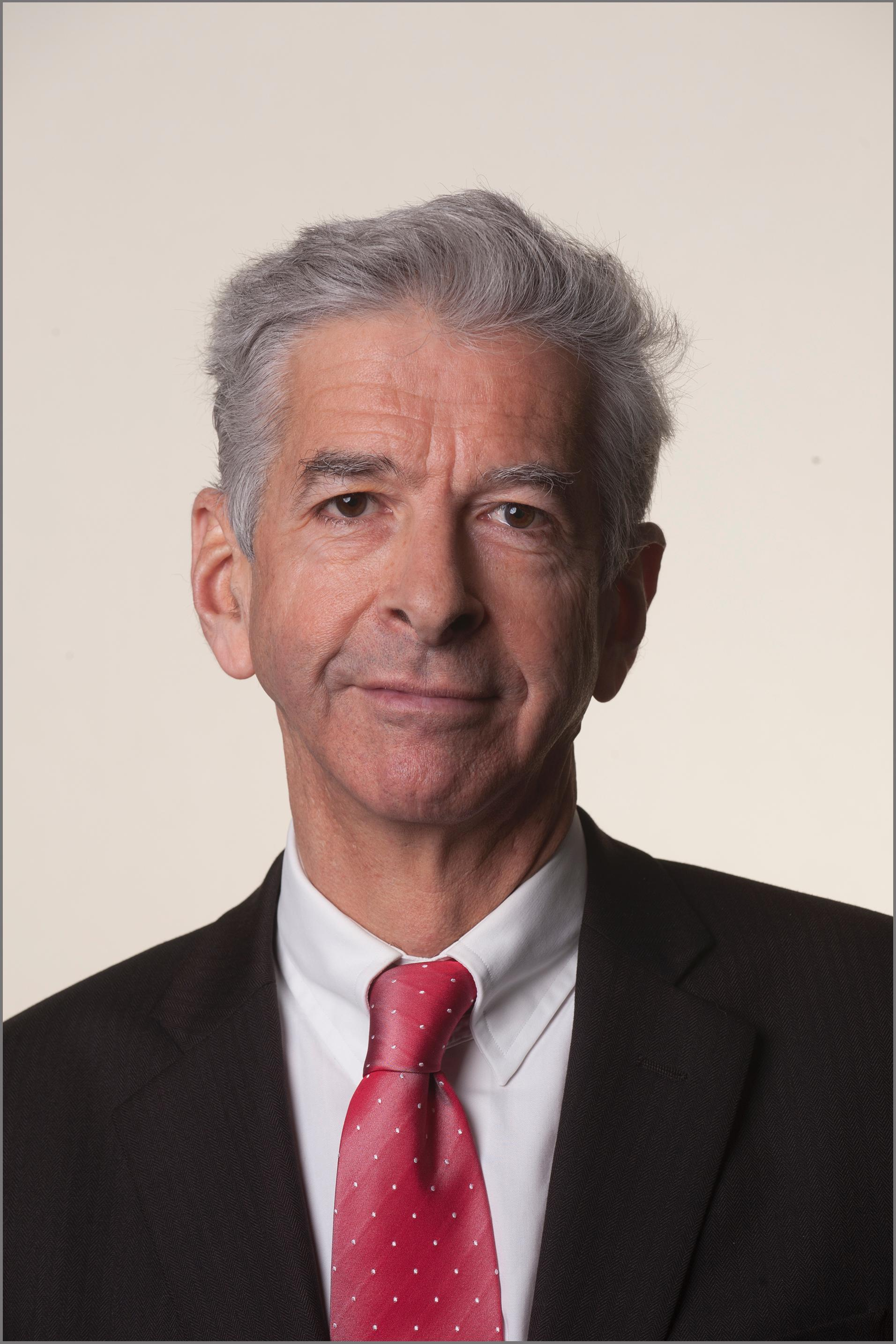 Ronald Plasterk, Dutch politican Rutte Cabinet II